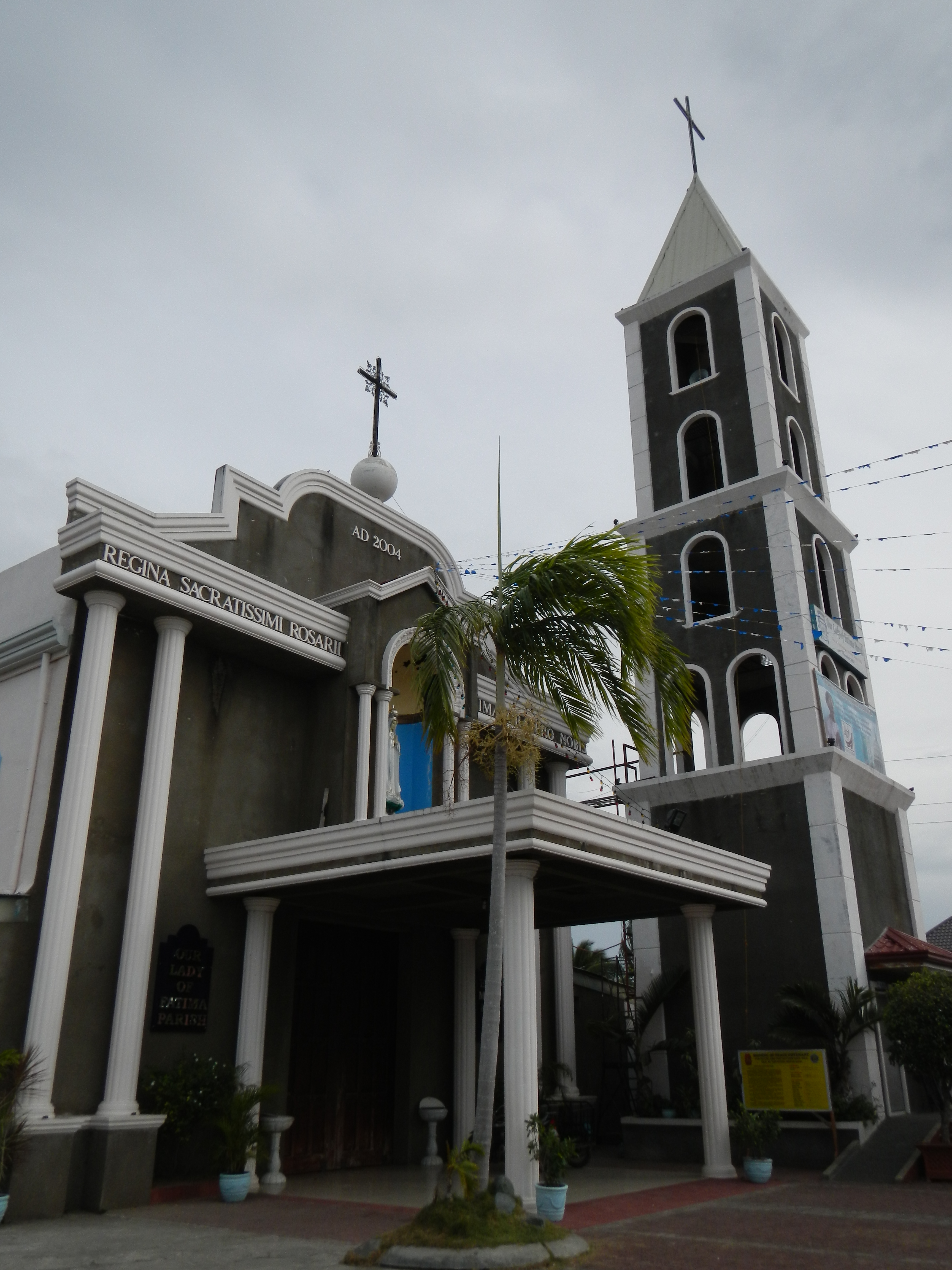 1957 Our Lady of Fatima Parish Church of General Mamerto Natividad[1][2] Roman Catholic Diocese of Cabanatuan[3] General Mamerto Natividad, Nueva Ecija[4] Titular: Our Lady of Fatima, May 13 Parish Priest: Fr. Marlou Tarcisio N. Cruz[5]Titular: St. Vincent Ferrer, April 5[6]Vicariate of St. Francis of Assisi